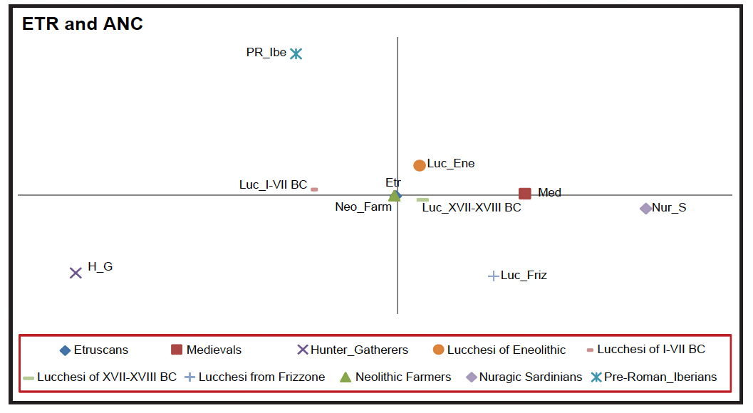 Multi Dimensional Scaling. Multi Dimensional Scaling summarizing genetic affinities between the Etruscans and (A) 52 modern populations of Western Eurasia and the Mediterranean basin; (B) Medieval and modern Italian populations; (C) 9 ancient populations of Europe.